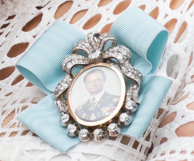 Royal Family Order of King Carl XVI Gustaf